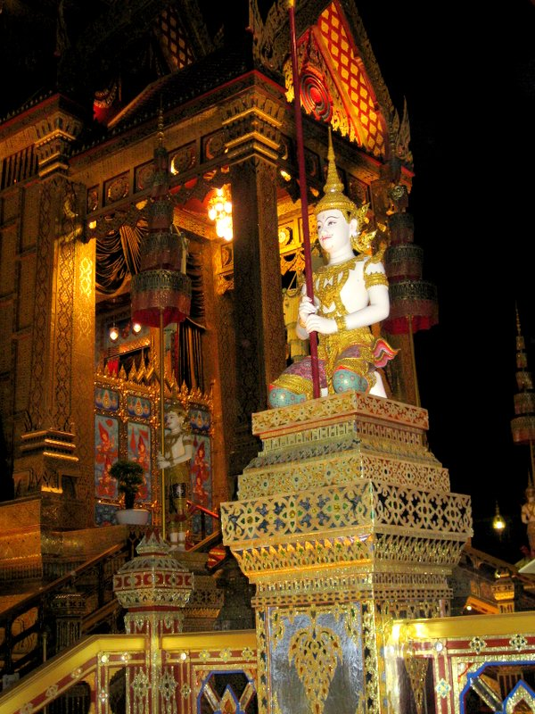 The crematorium (Phra Meru) of Her Royal Highness Princess Galyani Vadhana